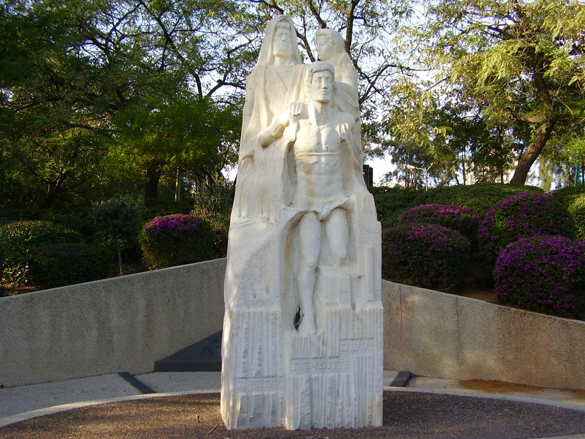 war memorial in giv'atayim פסל לנופלים במערכות ישראל בגבעתיים מעשה ידיו של הפסל מרדכי כפרי